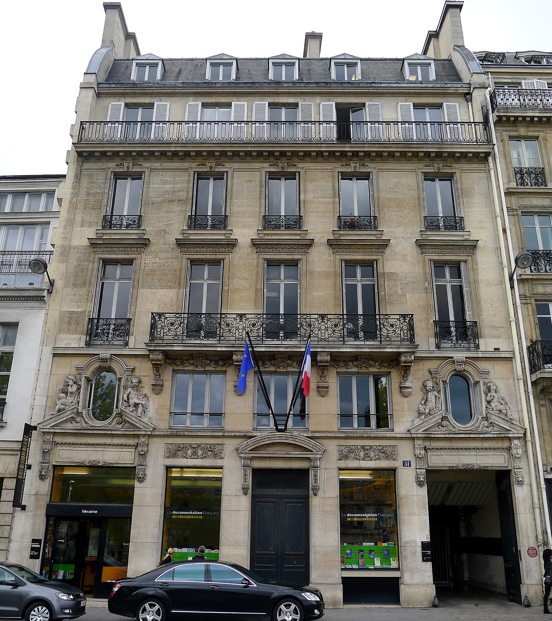 Quai Voltaire (n°31) - Paris